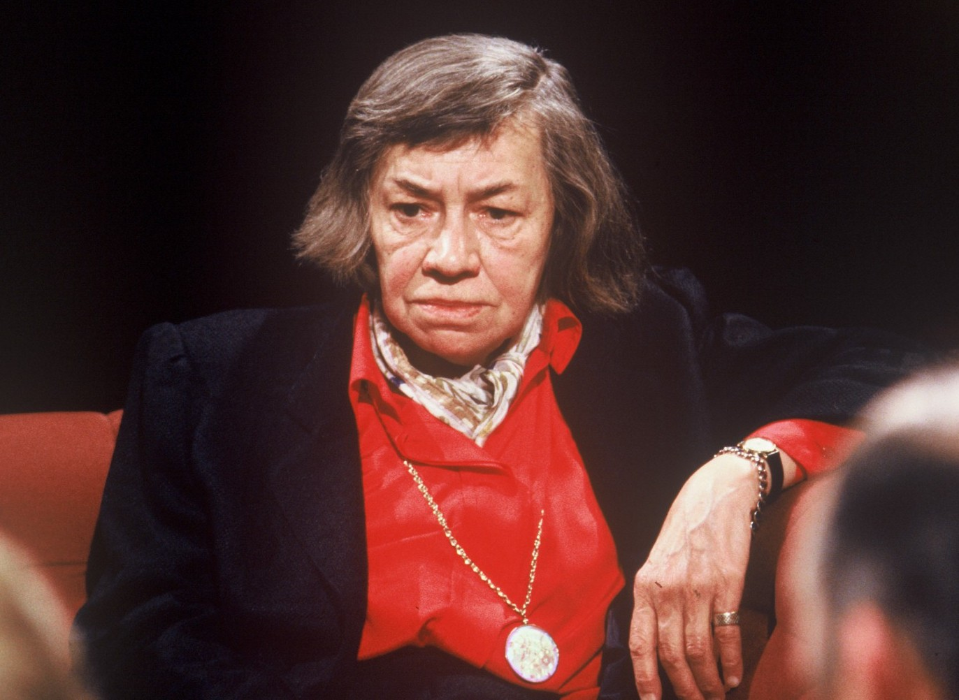 Patricia Highsmith appearing on television programme After Dark on 18 June 1988, (c) Open Media Ltd 1988